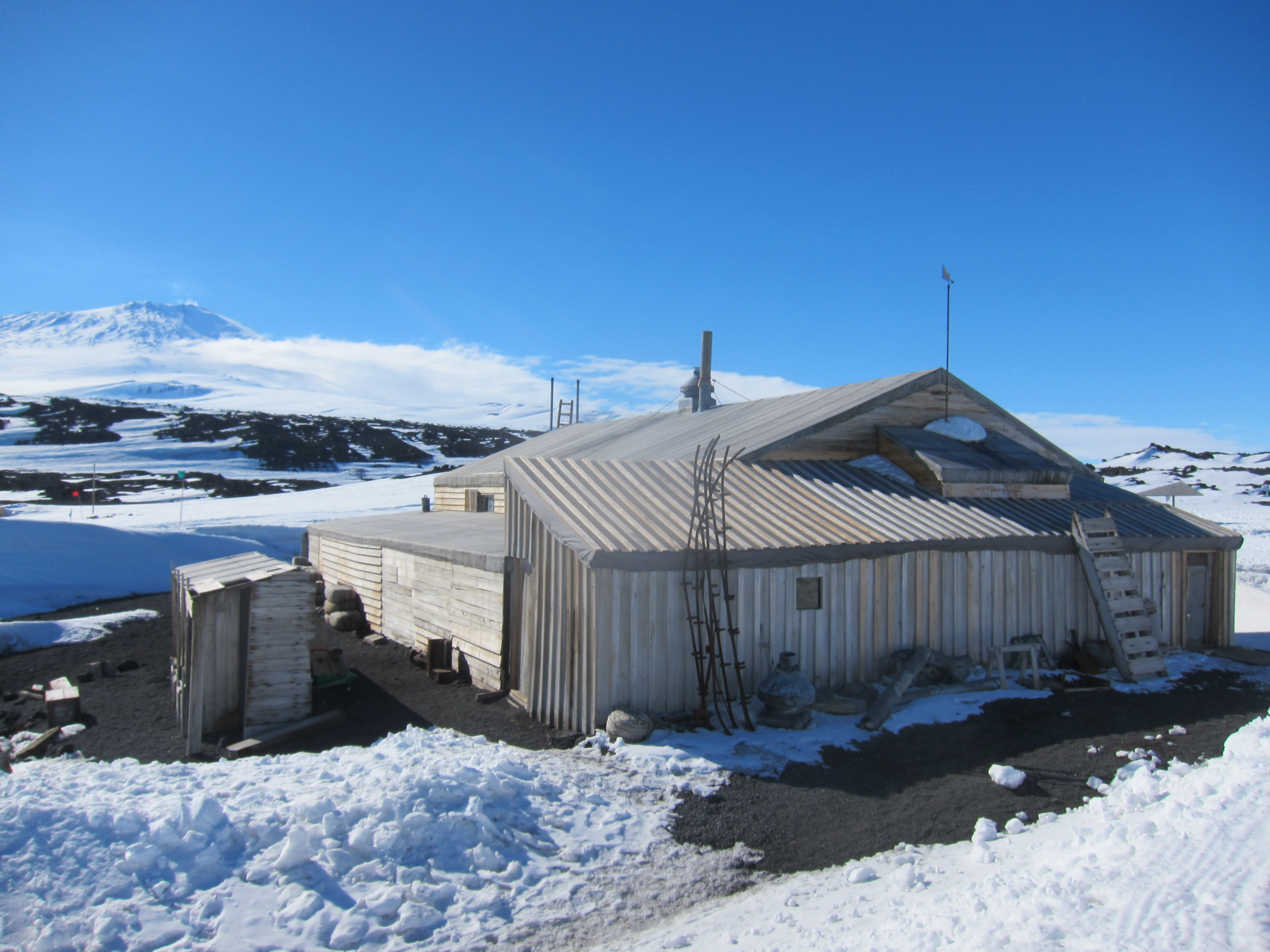 Robert Falcon Scott's Terra Nova Hut, Cape Evans, Antarctica